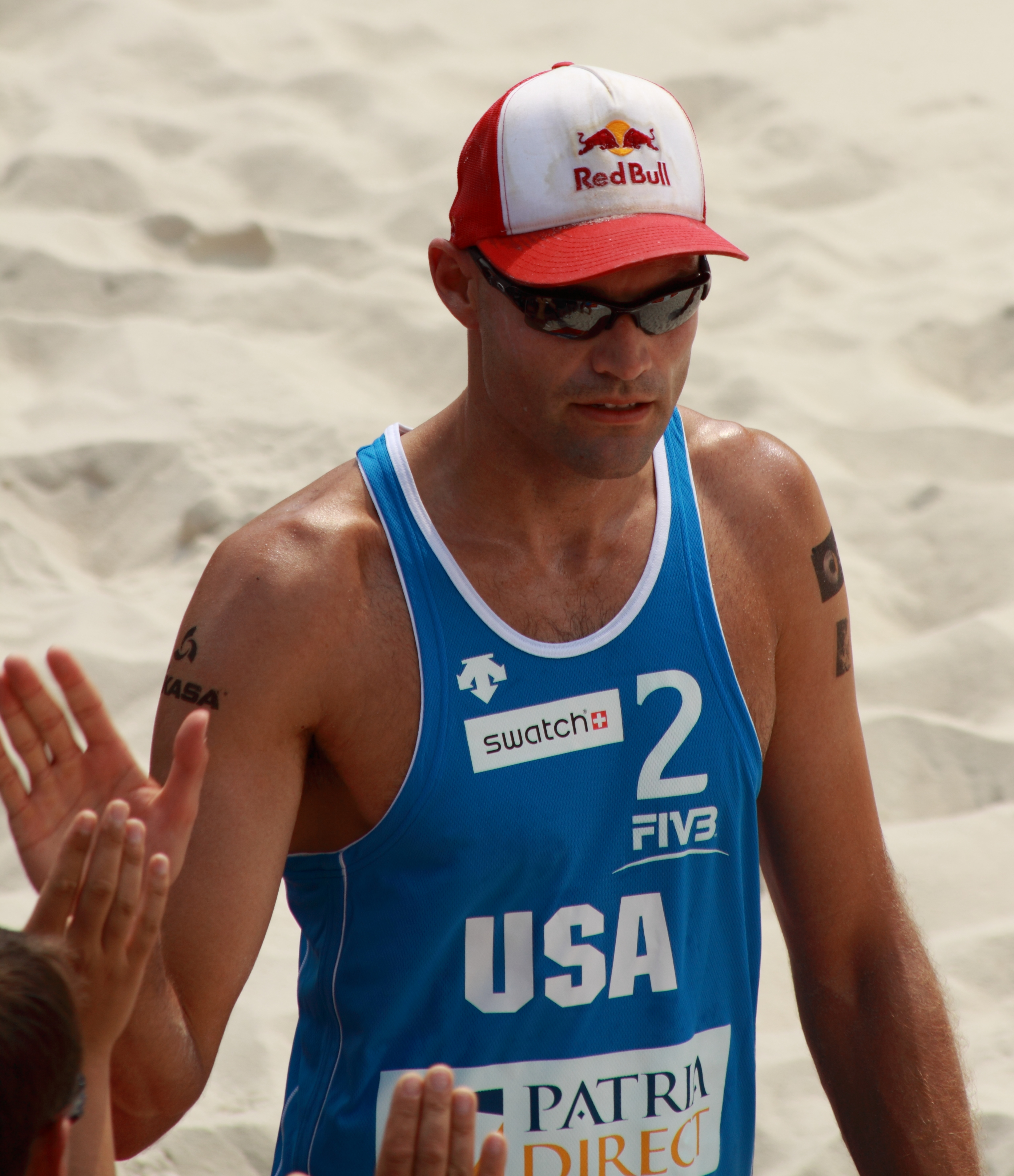 Phil Dalhausser at Patria Direct Open 2011